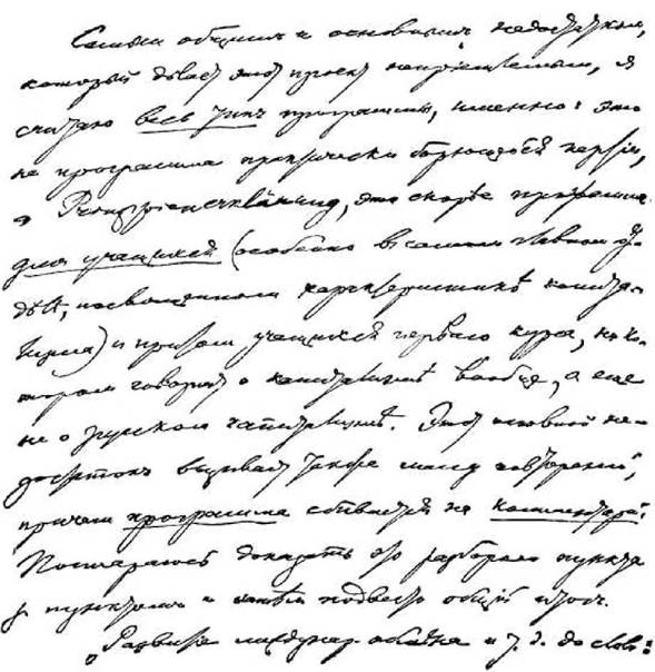 The first page of Lenin's manuscript with the comments on the second draft program of Plekhanov. - 1902